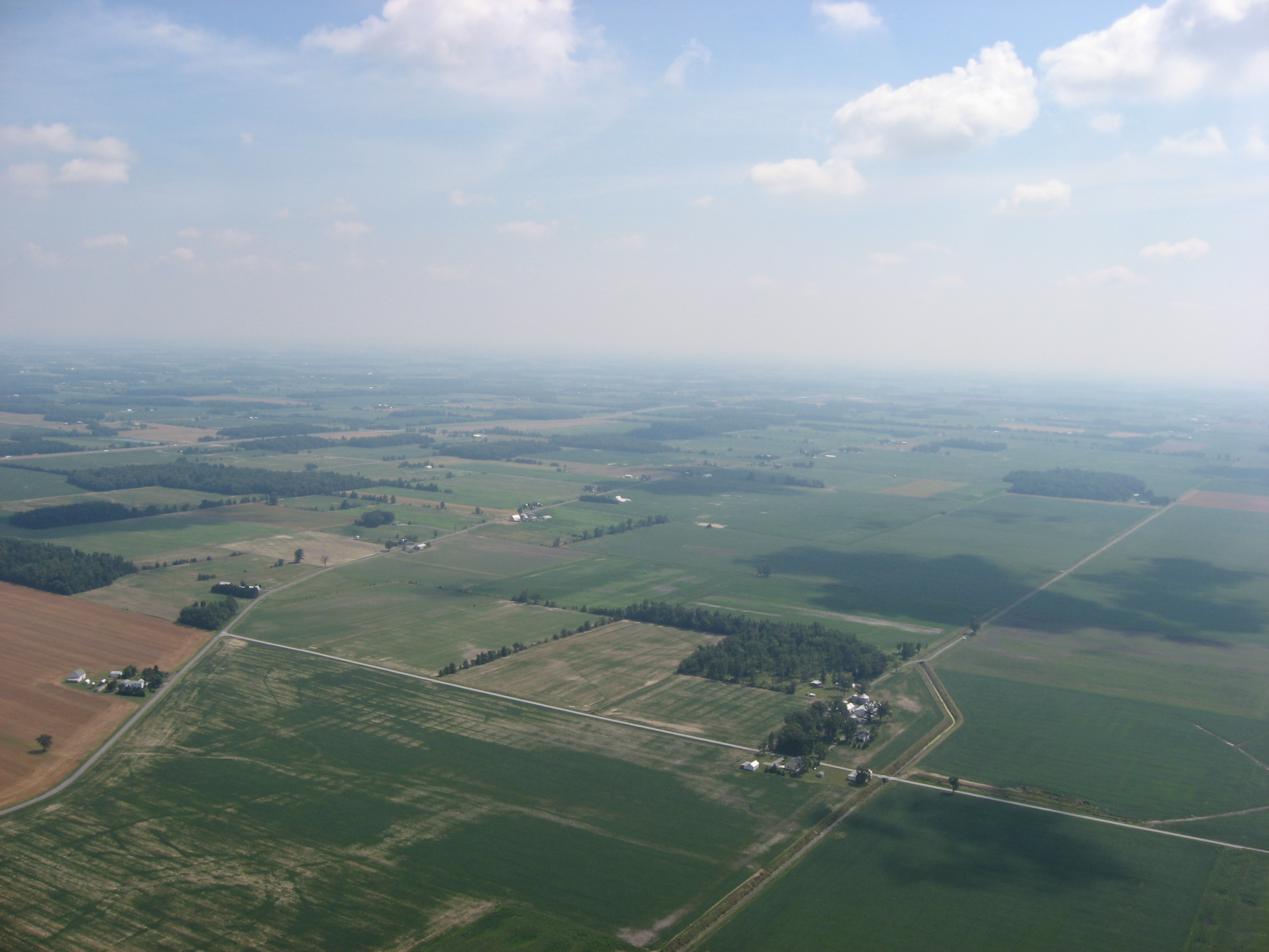 Aerial view of northwestern Washington Township, Hardin County, Ohio, United States, northwest of Dola. Picture taken from a Diamond Eclipse light airplane at an altitude of 2,250 feet MSL and a bearing of approximately 50º. Non-right angle intersection at left side of picture is County Roads 14 and 95.